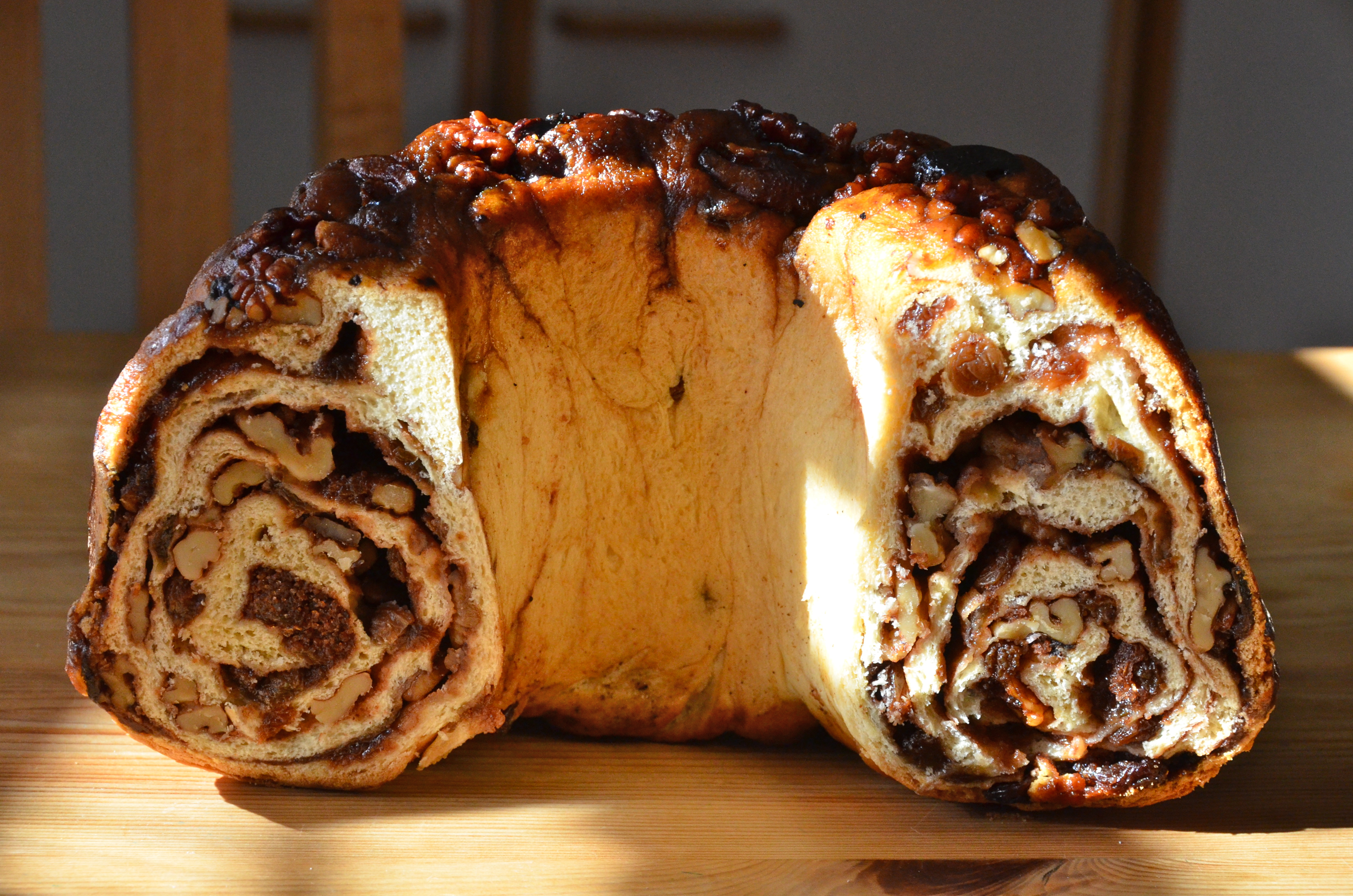 Cutting of a fresh Carinthian “Reindling” made of yeast dough, filled with sugar, cinnamon, raisins, walnuts, butter and a lacing of rum, Carinthia / Austria / EU